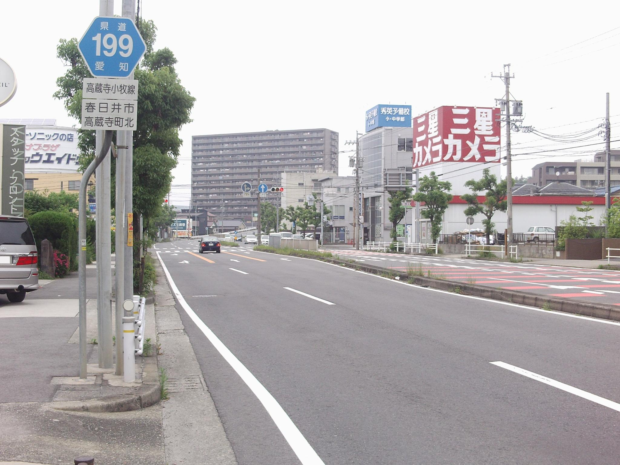 Aichi prefectural road No.199 in Kozojichokita, Kasugai, Aichi.